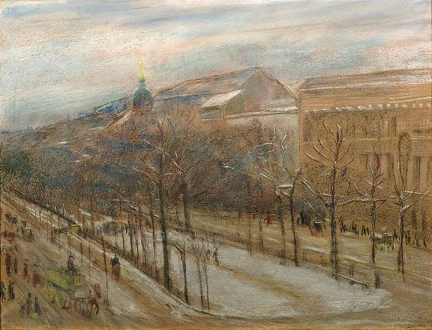 view from the artist's apartment, 19 January 1900